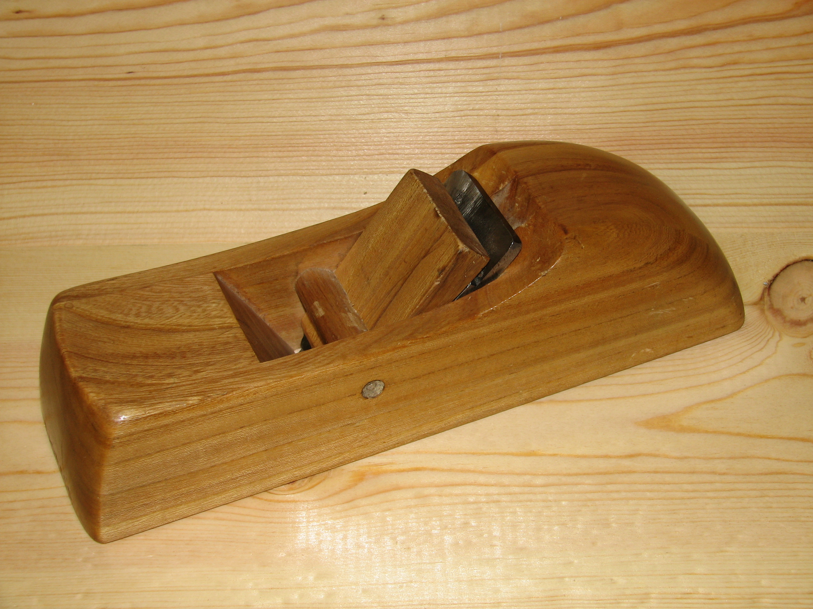 A smoothing plane made after the style of James Krenov. Made of elm.